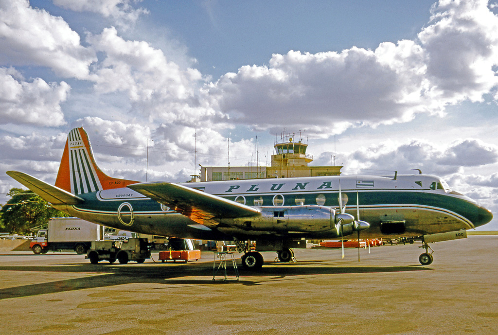 Vickers Viscount 769 CX-AQO of PLUNA at Montevideo Airport in 1975